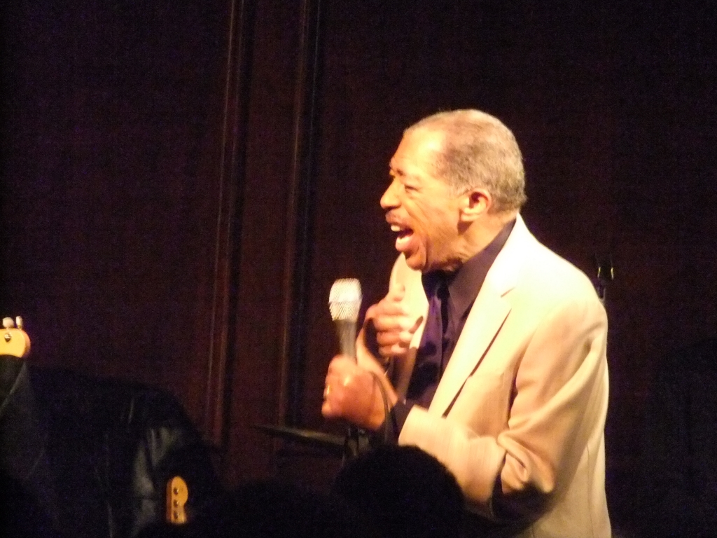 Ben E. King, Legendary Soul/Pop Singer-Boston, Mass. March 31, 2012 Ben E. King, famous singer of hit songs "Stand By Me", "Spanish Harlem", and many more solo and with The Drifters; performed at Scullers Jazz Club in Boston-March 31, 2012